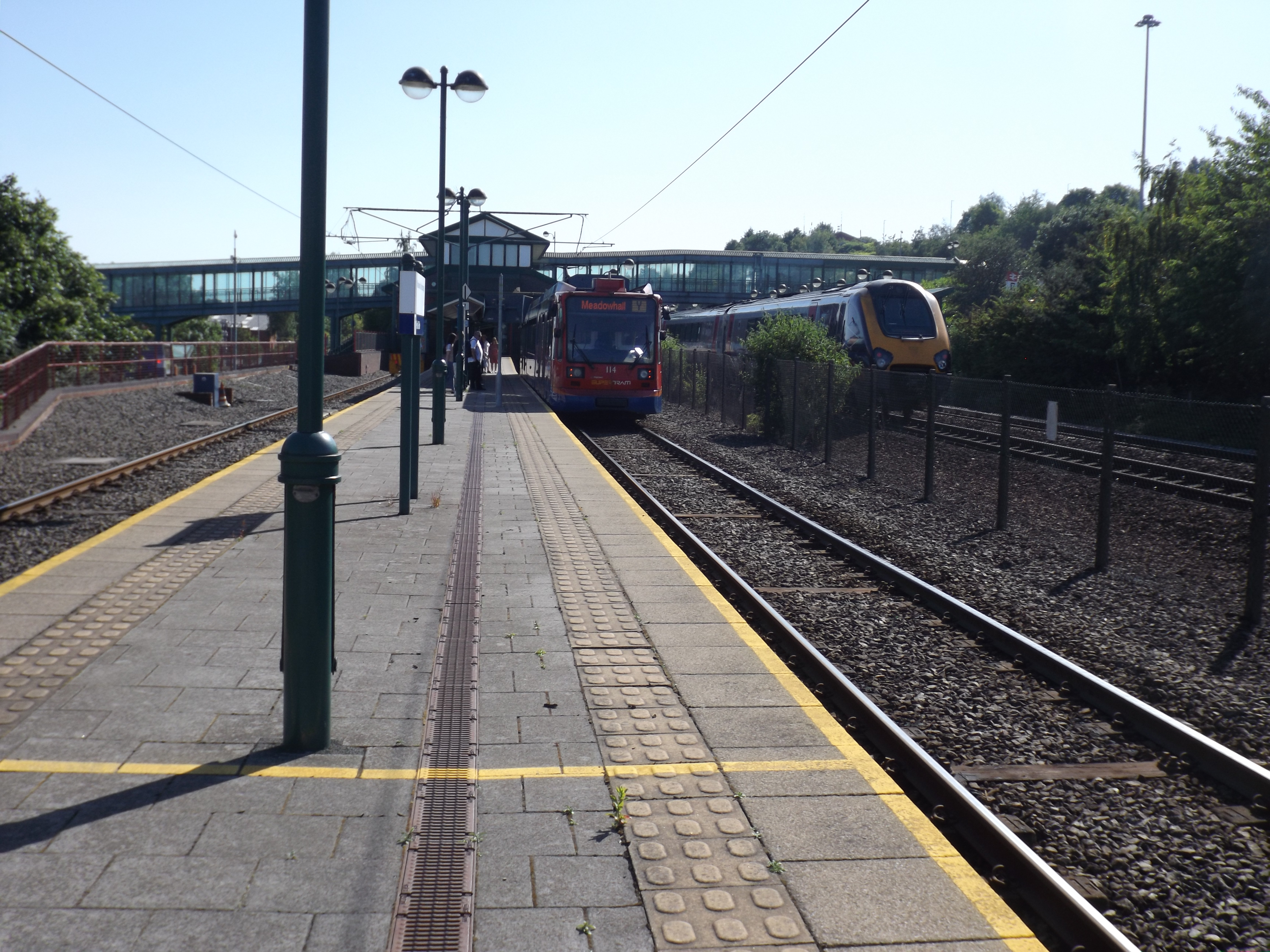 A SuperTram stands at Meadowhall Interchange as a CrossCountry train arrives.